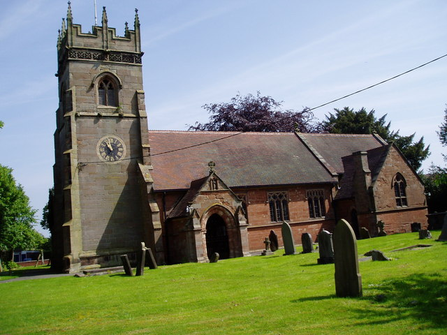 St Giles', Haughton. The church is built of brick and the tower of stone.